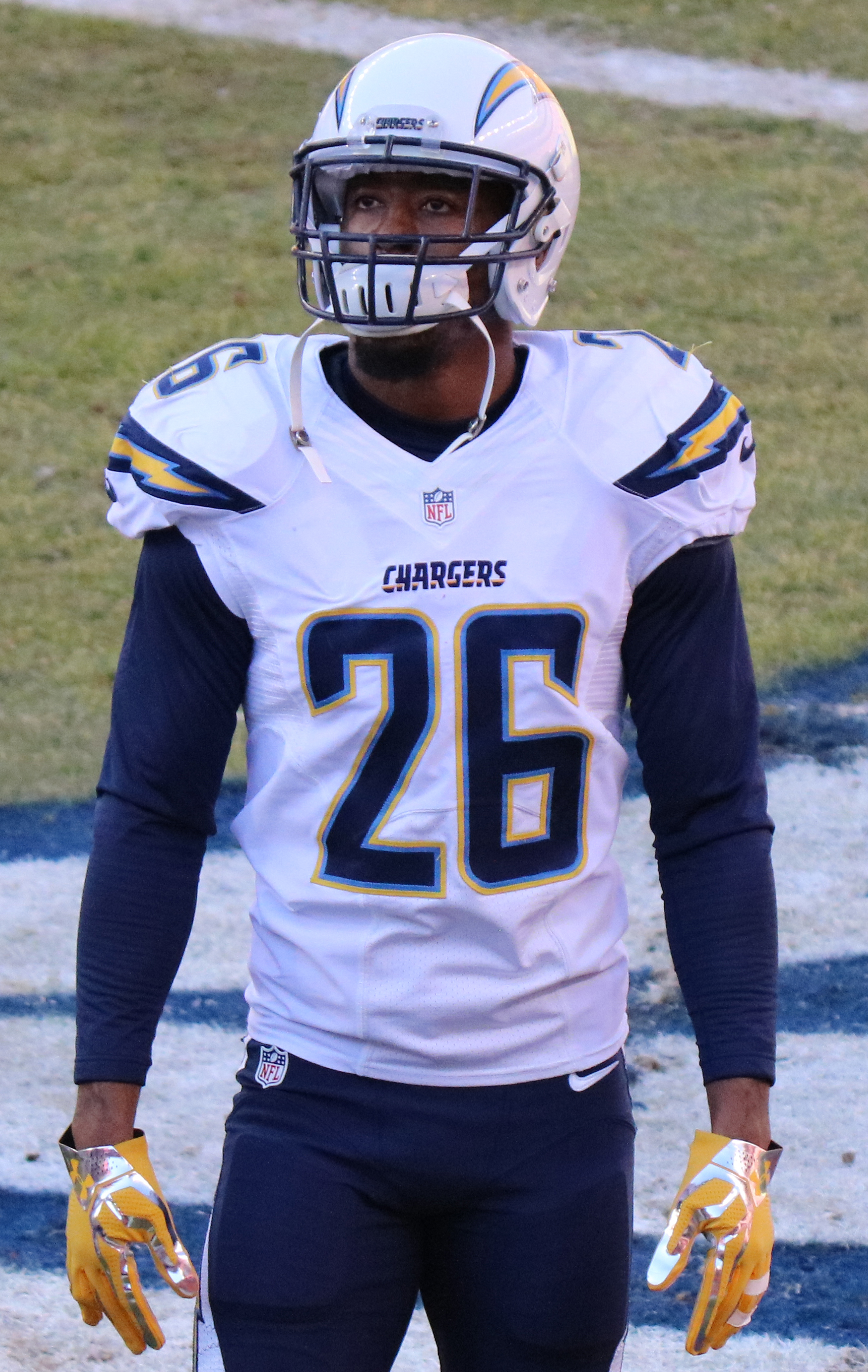 Patrick Robinson, a player on the National Football League.